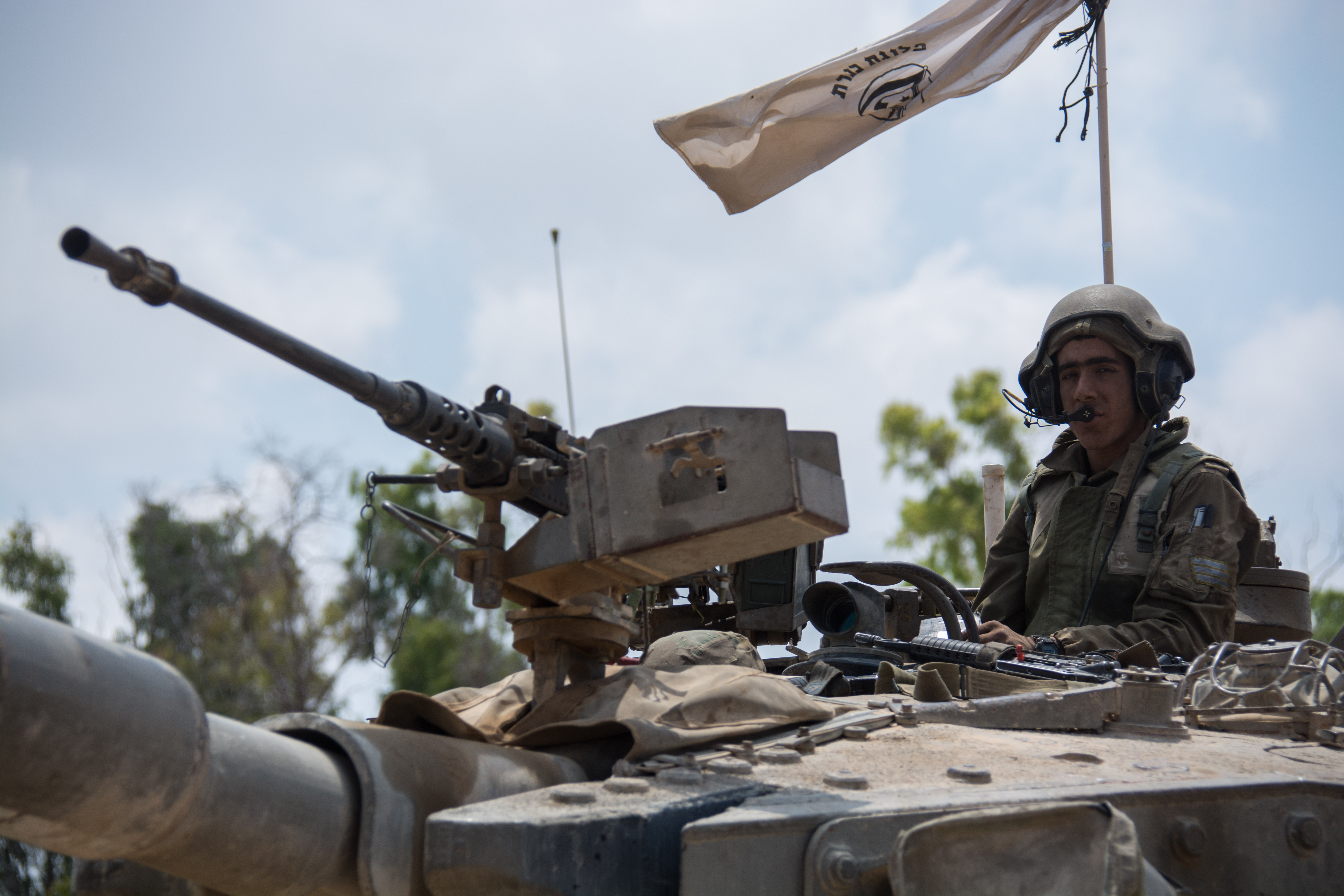 For more updates: The Israel Defense Forces Facebook The Israel Defense Forces blog Follow us on Twitter